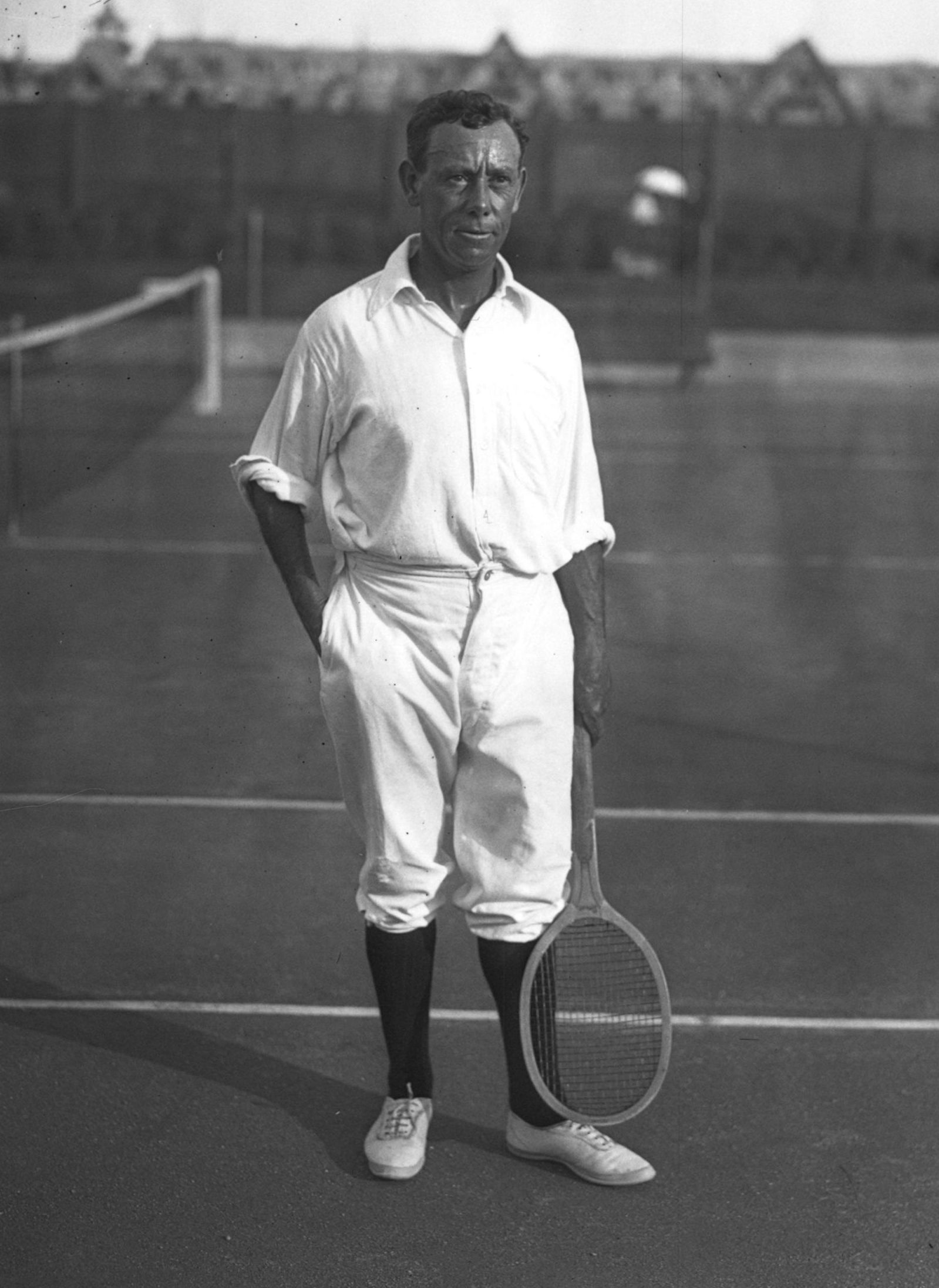 Horace Rice